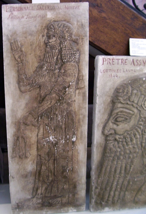 Two lottinoplasties of bas-reliefs of Ninive made by Pierre-Victorien Lottin in 1844. Collection: Musée de Bernay (Eure)